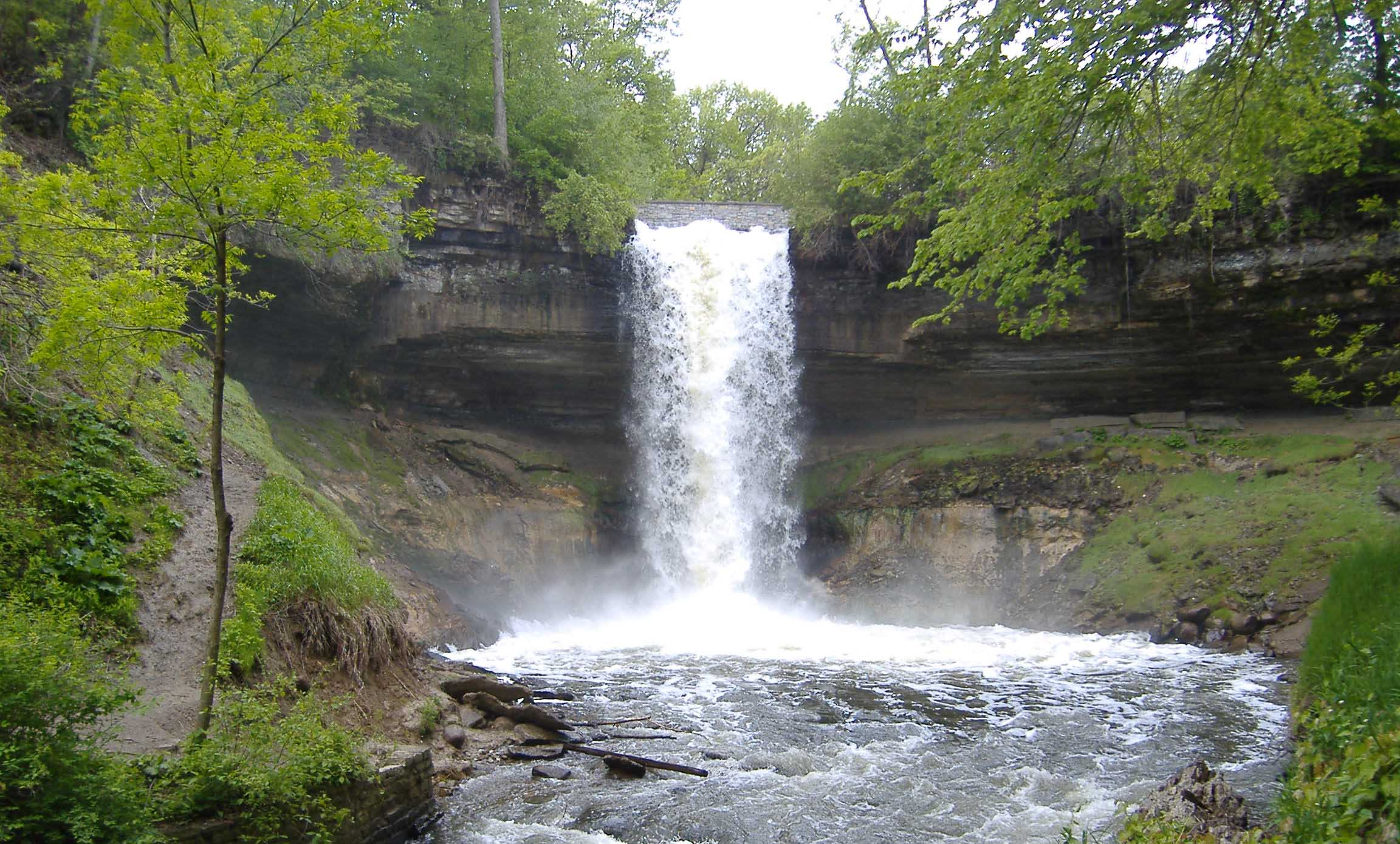 I took this picture on May 15, 2006.